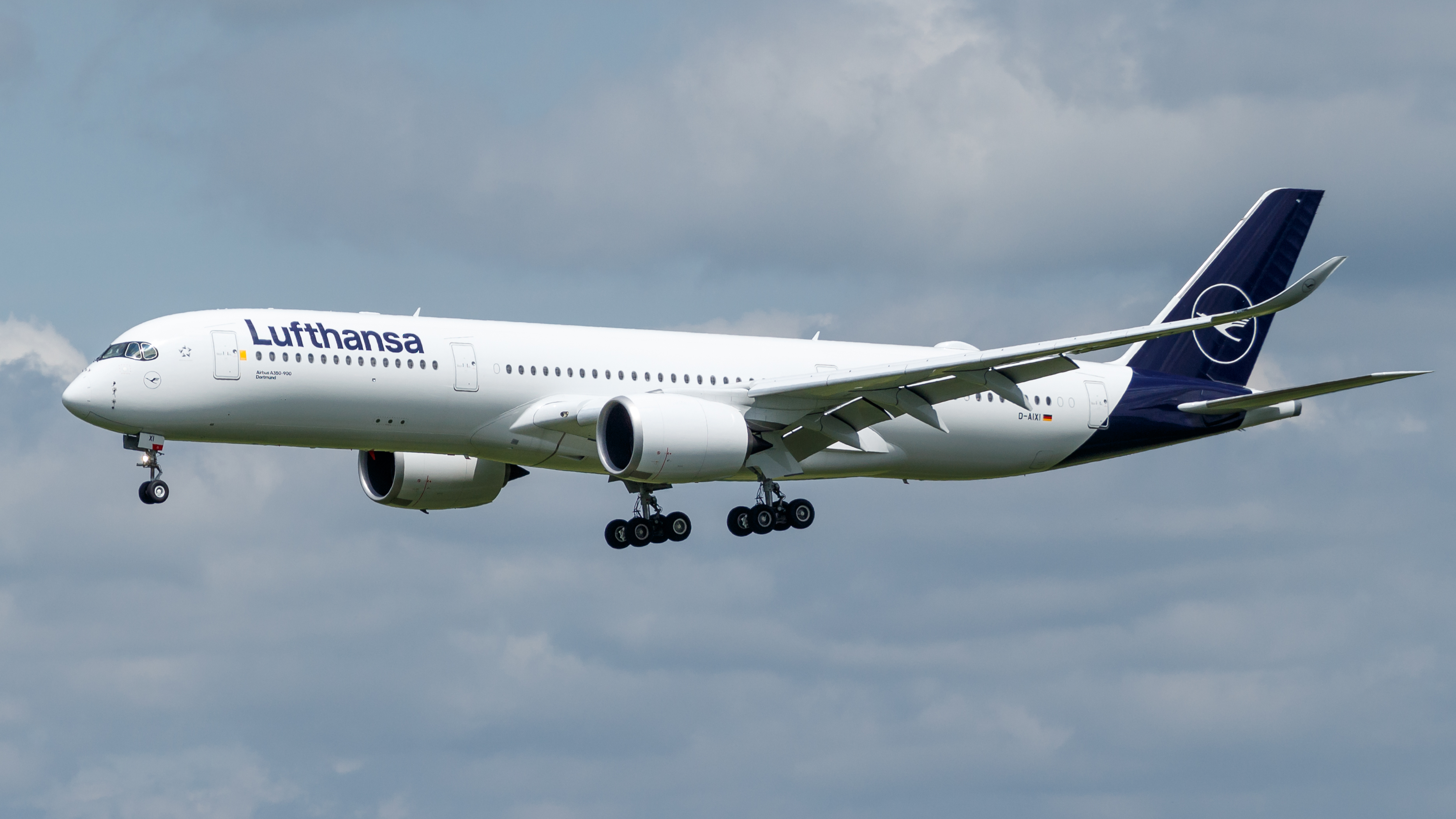 Airbus A350 of Lufthansa at Munich Airport